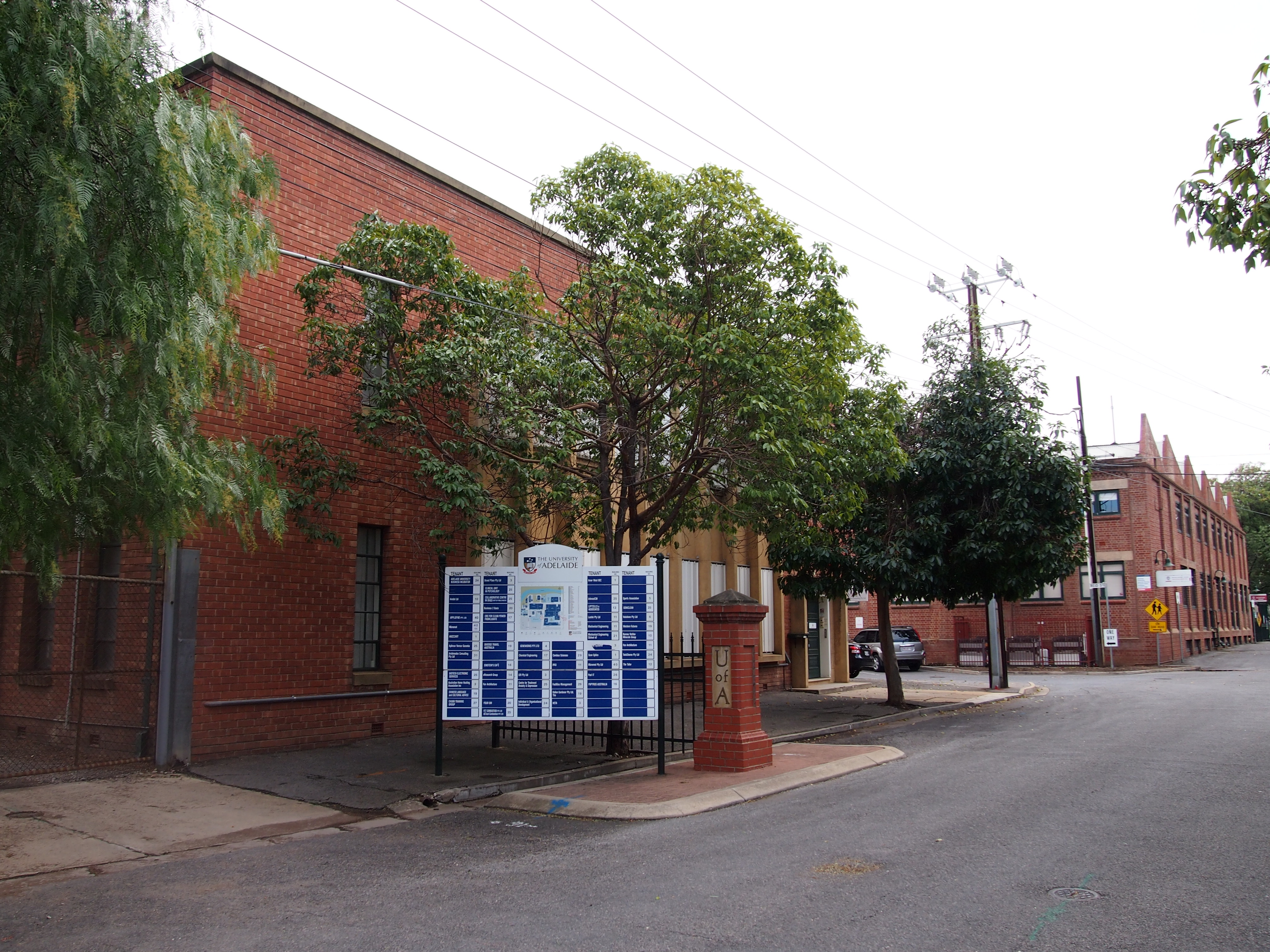 Stirling Street entrance to the University of Adelaide's Thebarton Campus Original filename = P5031767.JPG